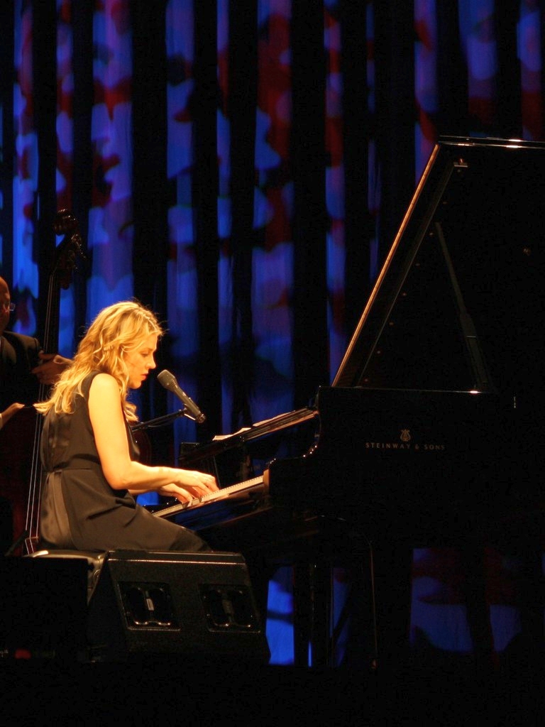 Jazz pianist Diana Krall at a concert in Cologne, Germany